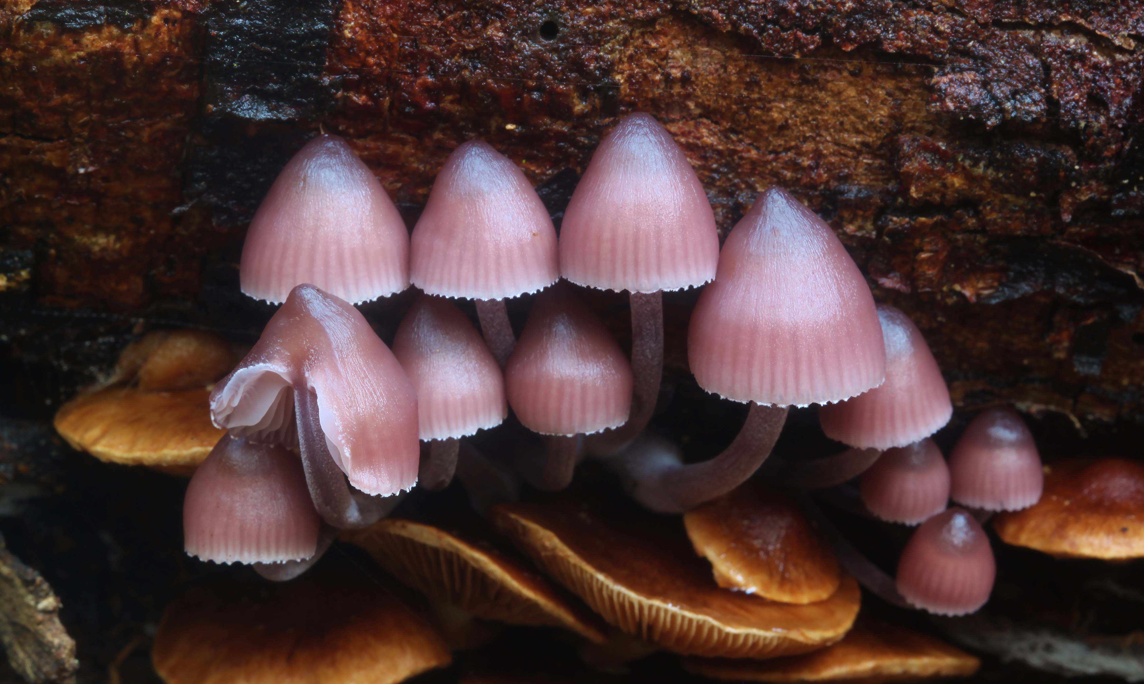 Mycena clarkeana Grgur Observation Notes: Several Mycena clarkeana fungi found growing at Wombat State Forest, Trentham East, Victoria, Australia. For more information about this, see the observation page at Mushroom Observer.